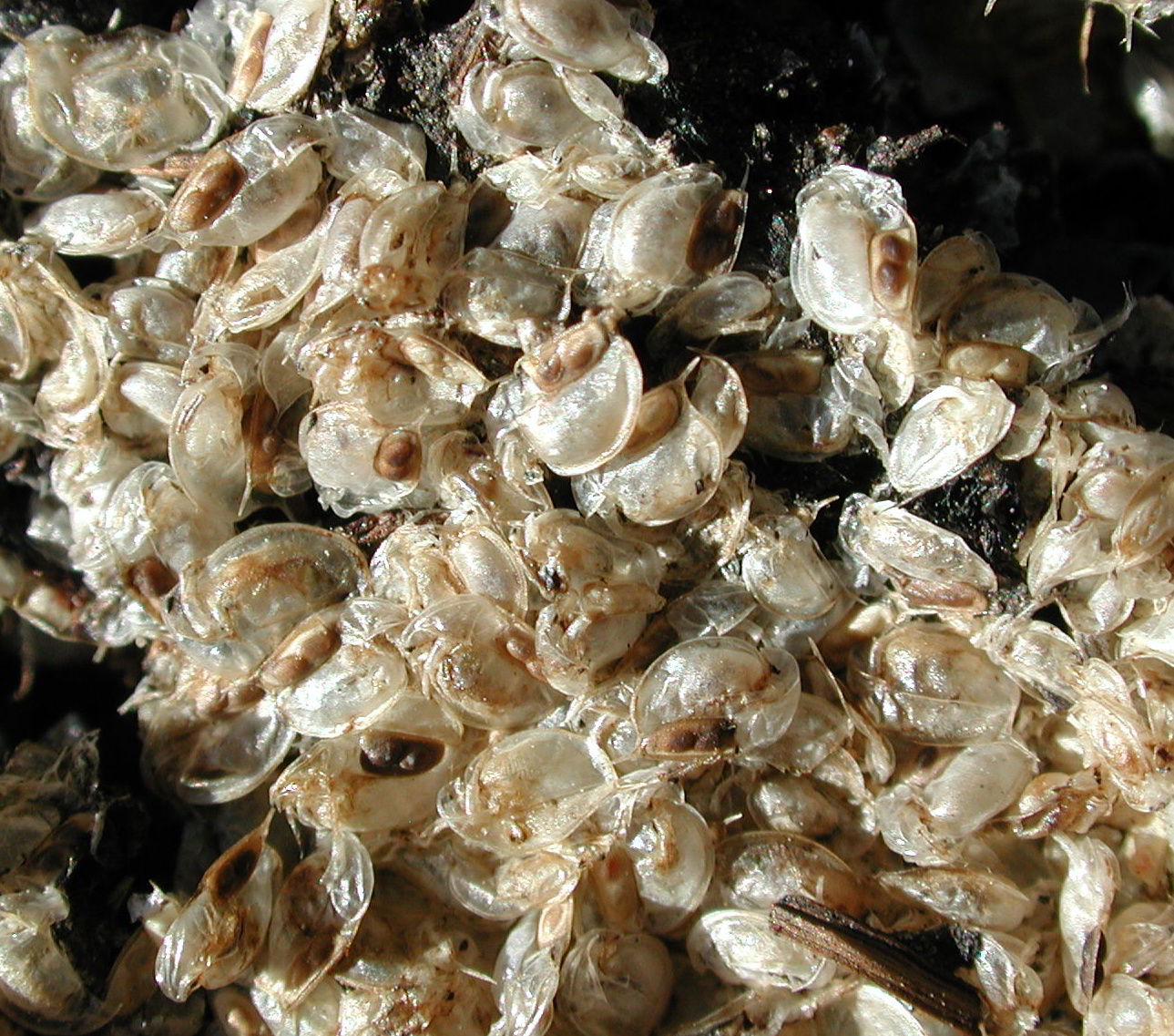 Surface of dried pond sediments of a rock pool in South-Western Finland. The sediment surface is covered with the dried bodies of Daphnia magna. Many females carry resting eggs (=ephippia), some of which will hatch when the rock pool receives water after the next rain.